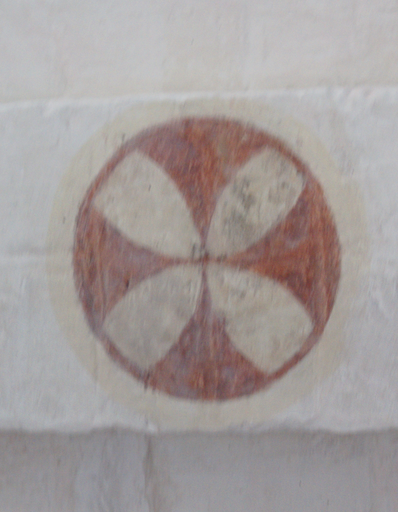 Church of Vestervig, Denmark